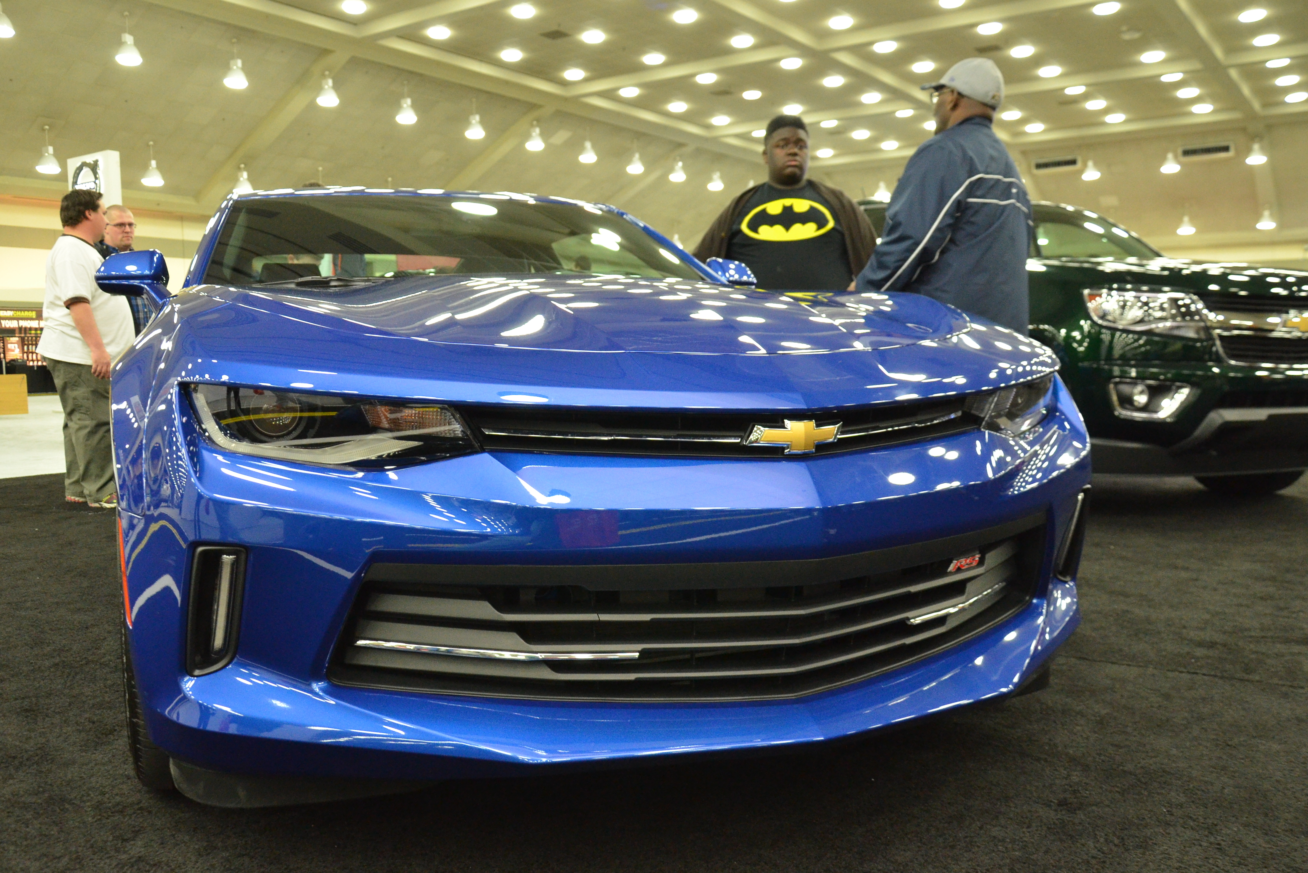 Batman and a Blue Camaro